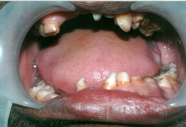 Oral view showing numerous over-retained deciduous and some missing teeth.